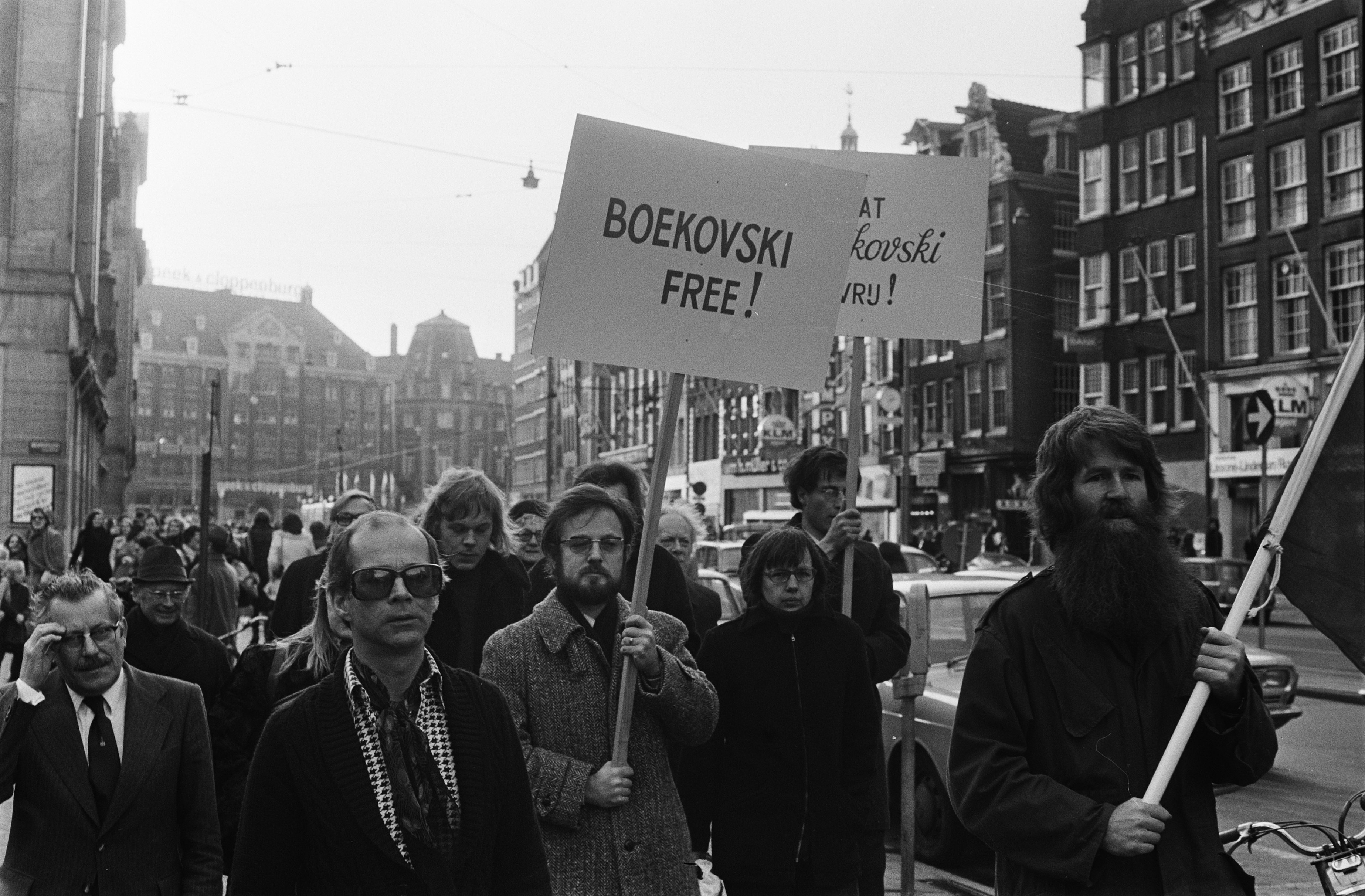 Protest demonstration in favour of the release from prison of Vladimir Bukovsky (Amsterdam, 4 January 1975). Left to right: unidentified person, unidentified person, Henk van Ulsen, unidentified person, unidentified person, unidentified person, Maarten Biesheuvel, Henk Wolzak.